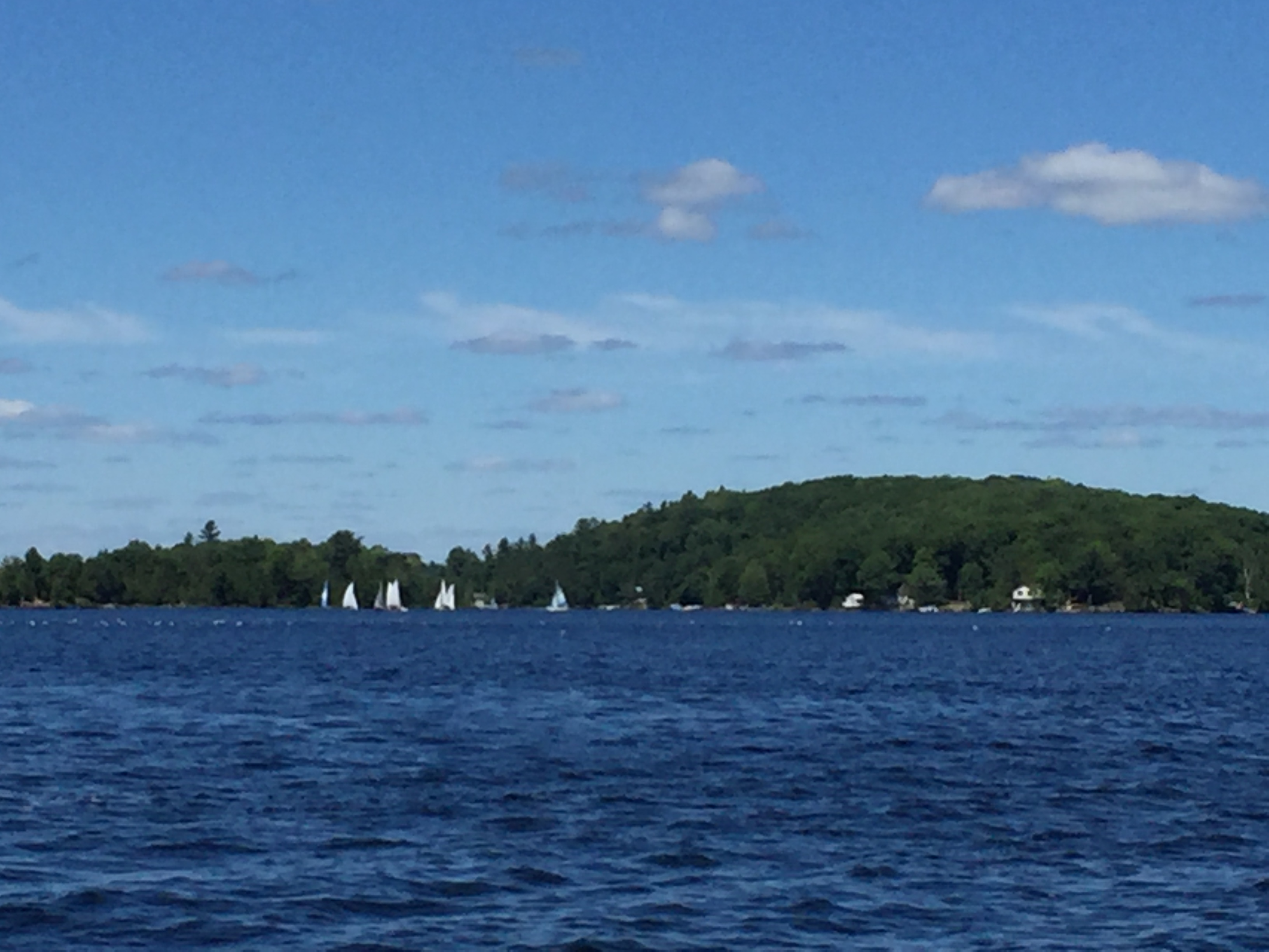 Belmont Lake looking North at the south side of Big Island